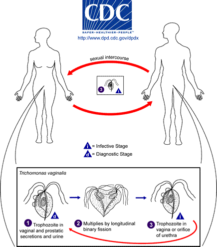 Trichomoniasis [Trichomonas vaginalis] Life cycle of Trichomonas vaginalis Trichomonas vaginalis resides in the female lower genital tract and the male urethra and prostate, where it replicates by binary fission. The parasite does not appear to have a cyst form, and does not survive well in the external environment. Trichomonas vaginalis is transmitted among humans, its only known host, primarily by sexual intercourse.